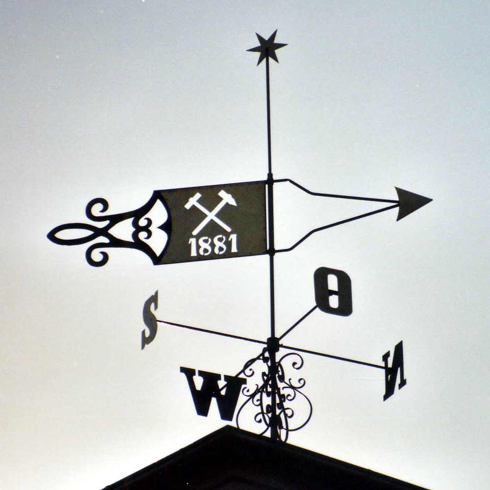 This image shows the weather vane of the former briquette factory "Hermannschacht" in Zeitz in Saxony-Anhalt, Germany.